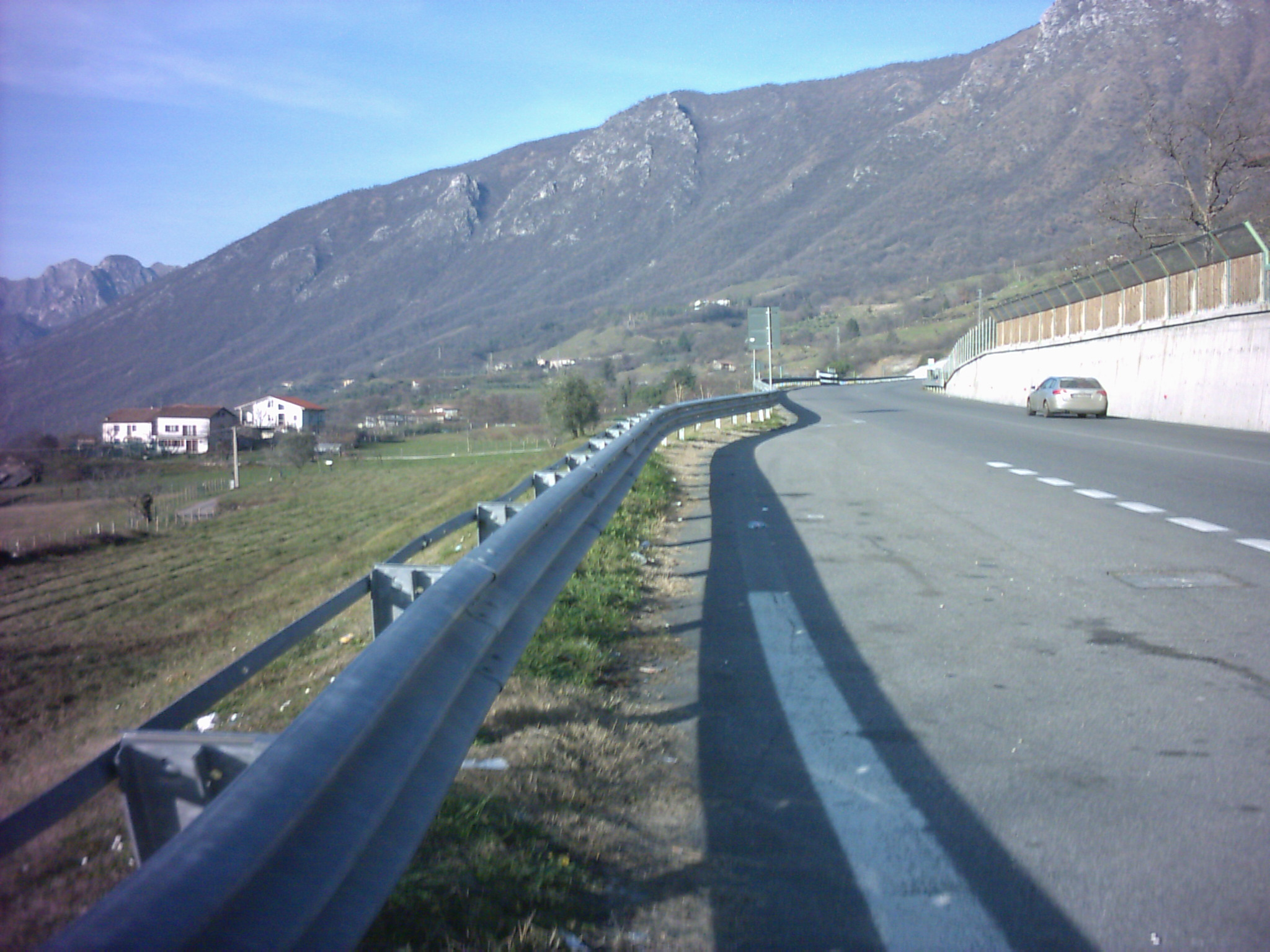 Italian highway SP BS 510 (former SS510) near Sulzano